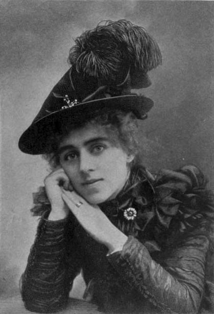 Portrait of Gertrude Coghlan.